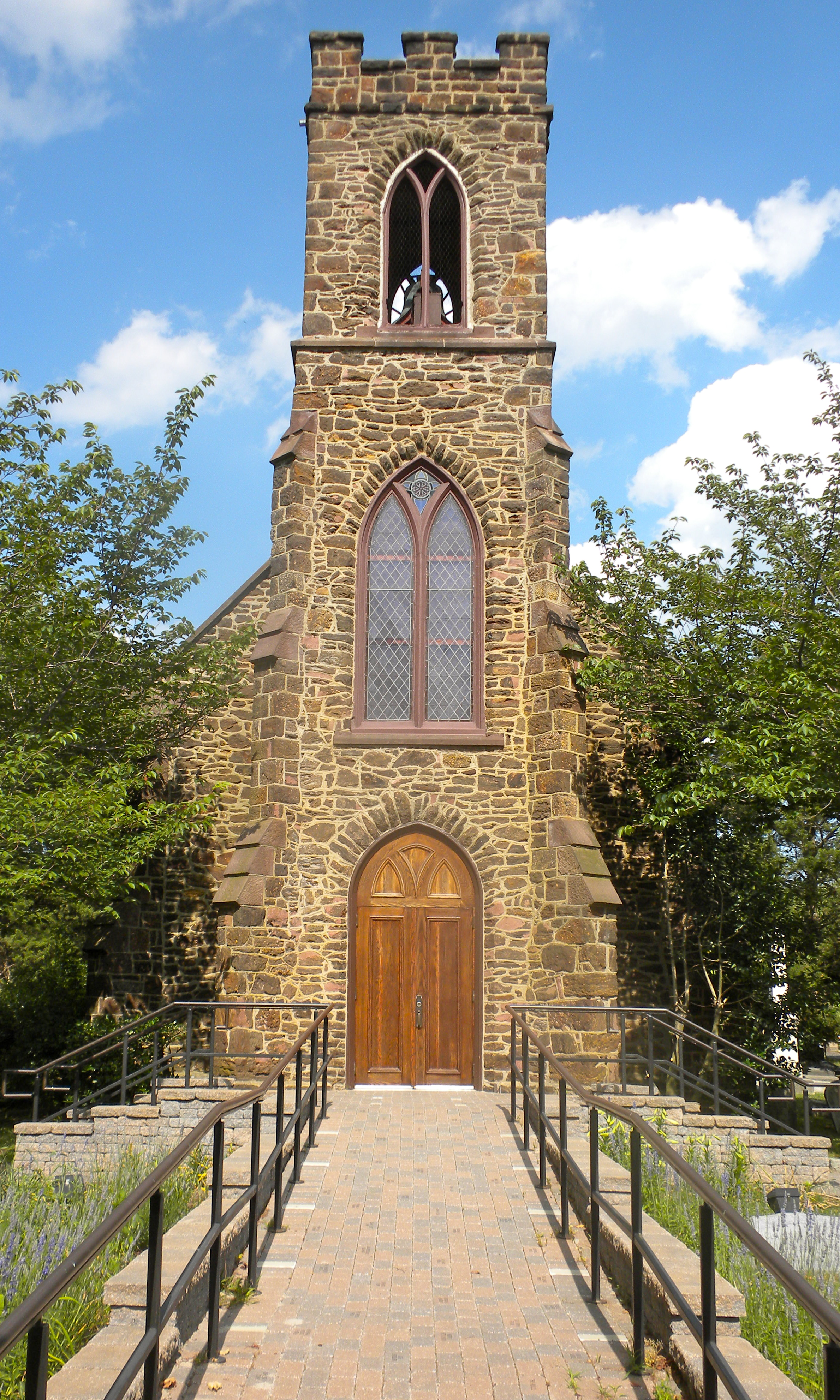 St. Thomas Episcopal Church on the NRHP since March 3, 1975. On the SE corner Main and Focer Sts., Glassboro, New Jersey (keep looking - it really is there!)